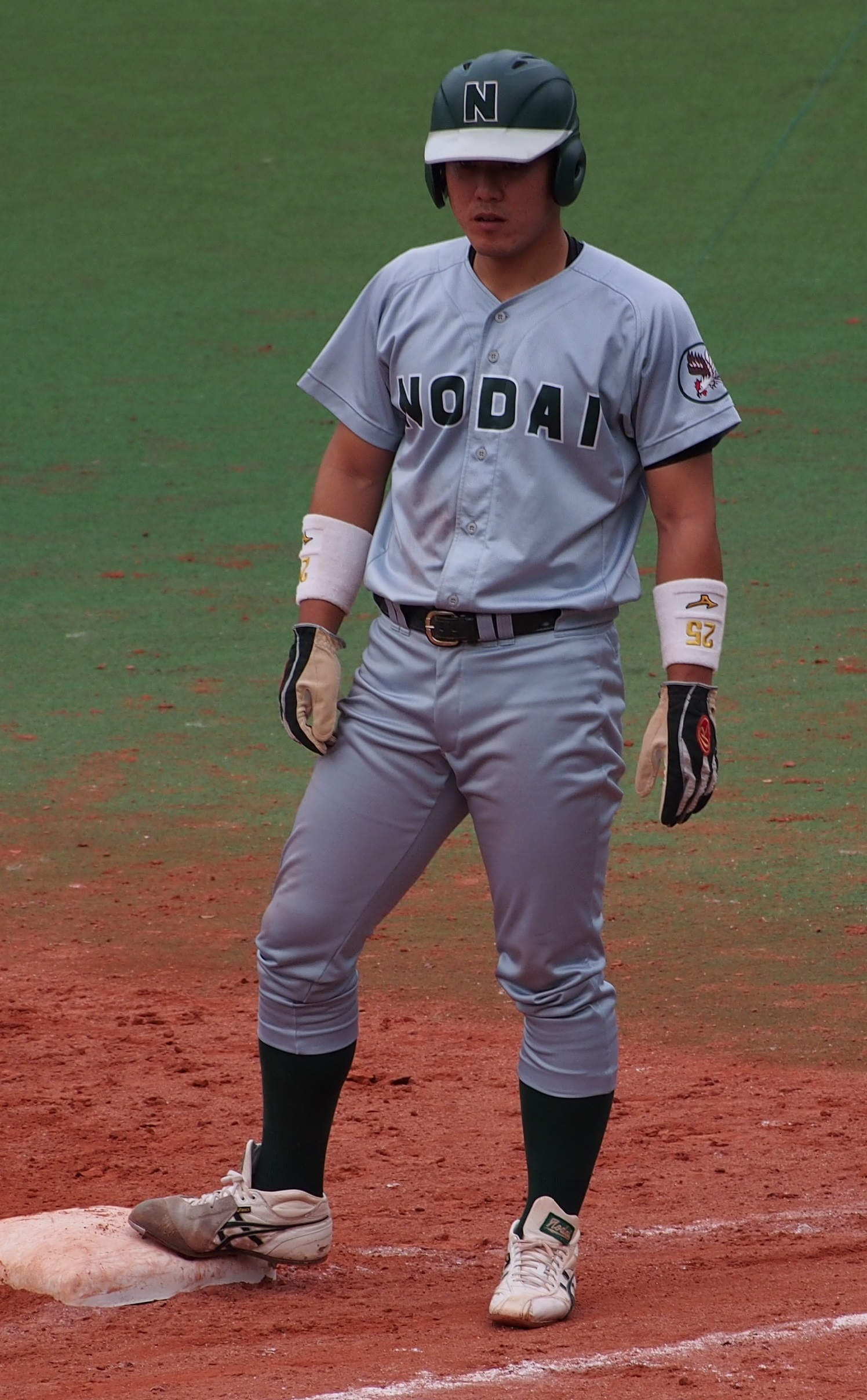 Naomasa Yokawa, infielder of the Tokyo University of Agriculture Baseball Club, at Meiji Jingu Sub Stadium